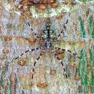 Tamopsis novaehollandiae on Native Rosella tree